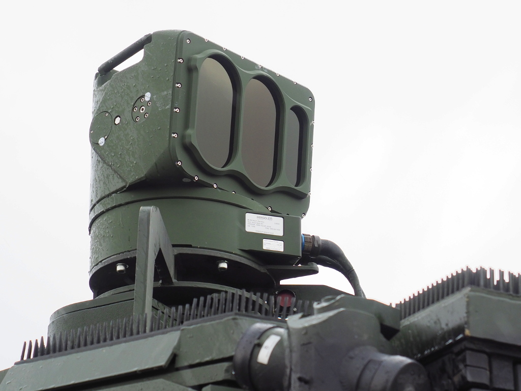 HENSOLDT MUSS Jammer Head (MJH) mounted on Puma IFV, German Armed Forces Day, Fassberg 2019